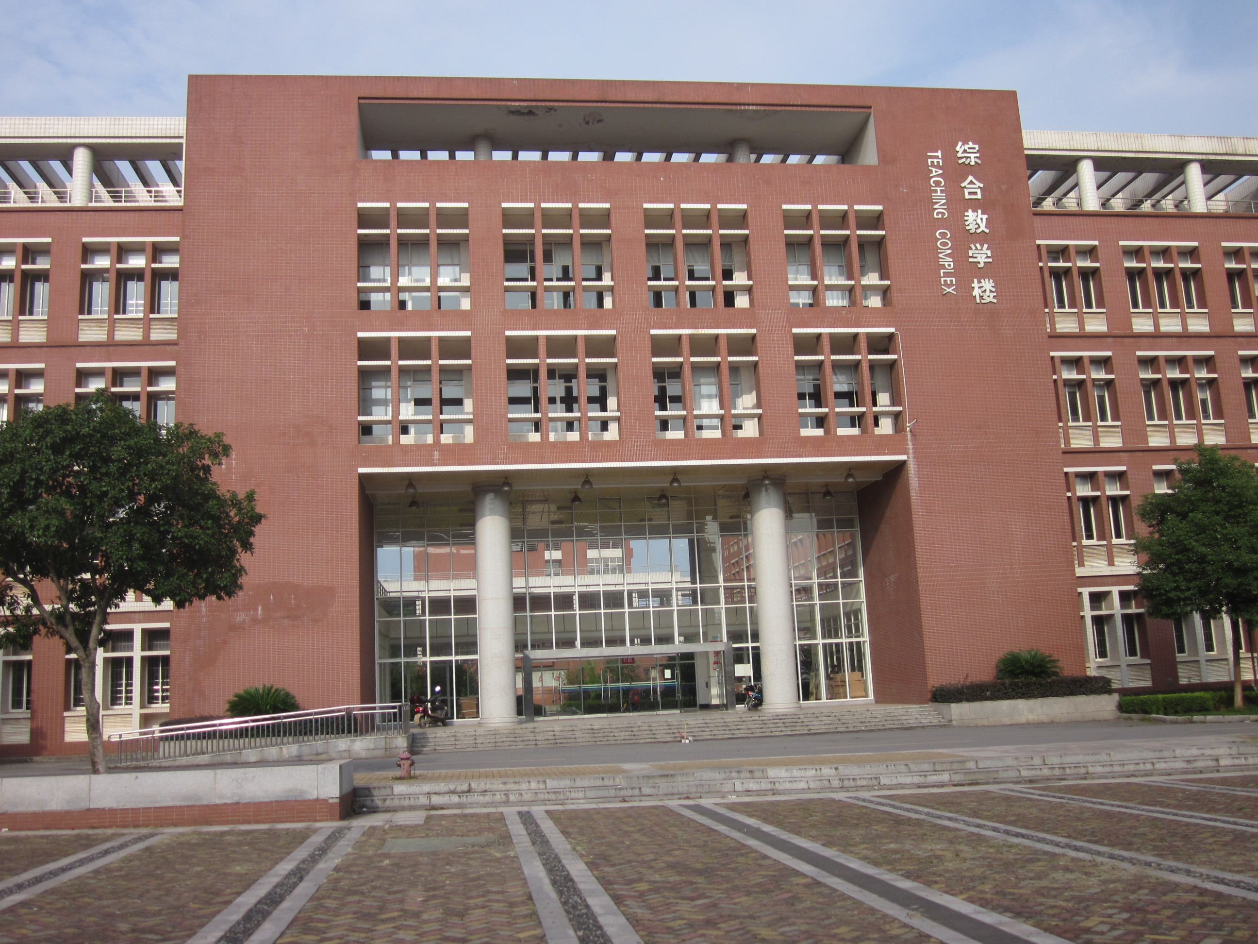 Changsha University of Science and Technology(CSUT; simplified